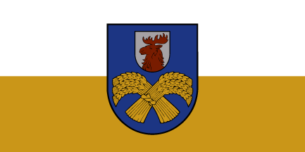 flag of Jelgava Municipality, Latvia.